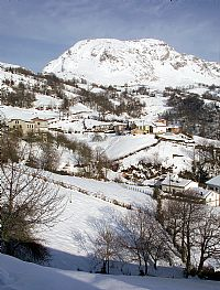 Peñamayor Mountain, at Laviana, Principado de Asturias, Spain